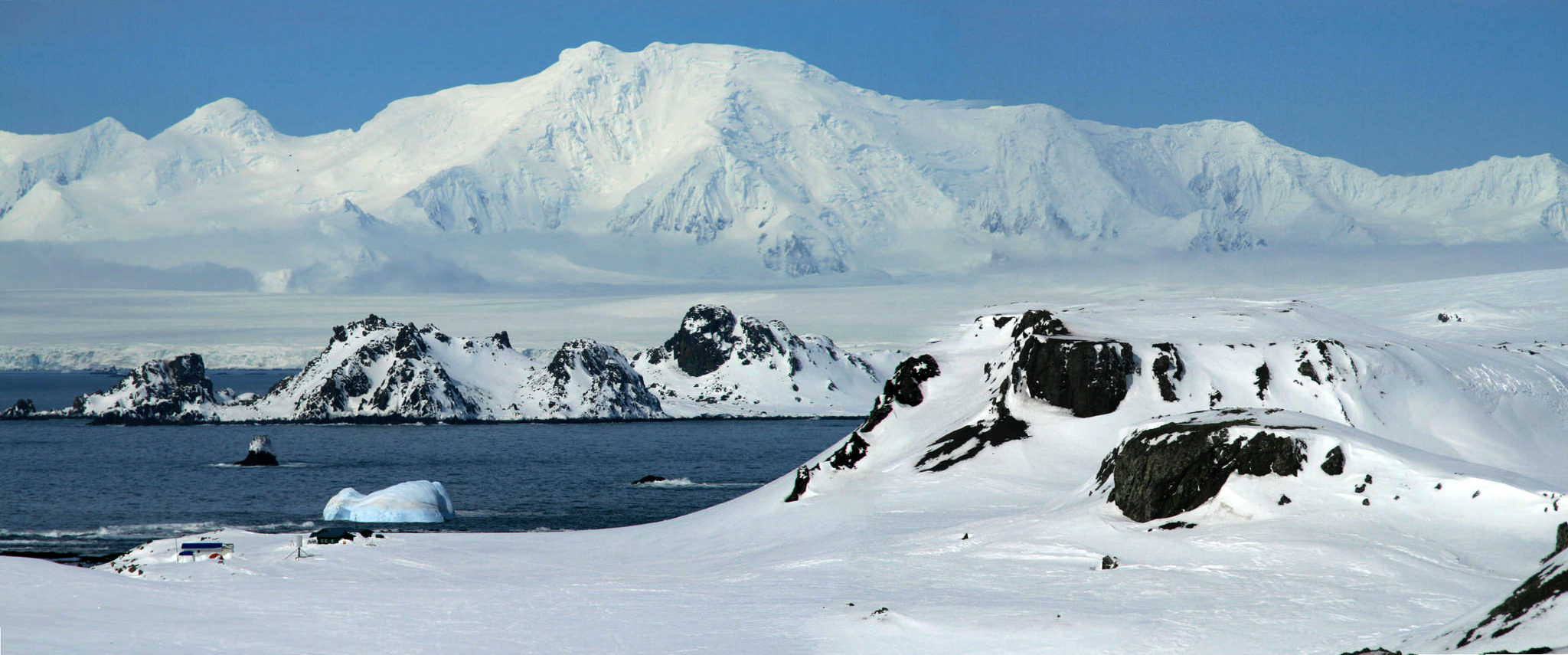 Image ID: fish8862, NOAA's Fisheries Collection Location: Antarctica, Cape Shirreff, Livingston Island Photographer: McKenzie Mudge Credit: NOAA NMFS SWFSC Antarctic Marine Living Resources (AMLR) Program